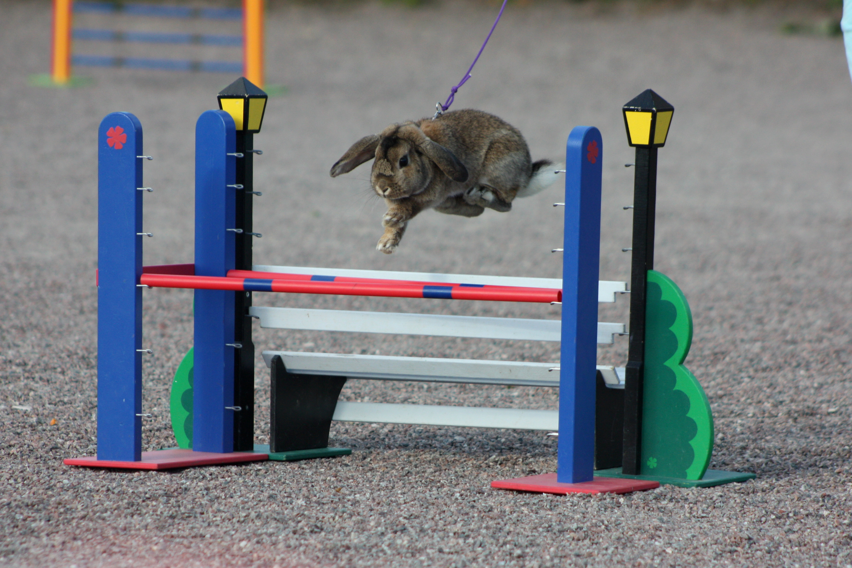 Rabbit jumping over an Easy-Class fence at a Swedish Rabbit Show Jumping Competition